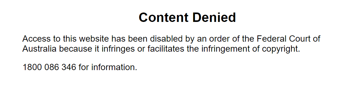 Screenshot of webpage displayed to Telstra users trying to access websites blocked for infringing copyright.